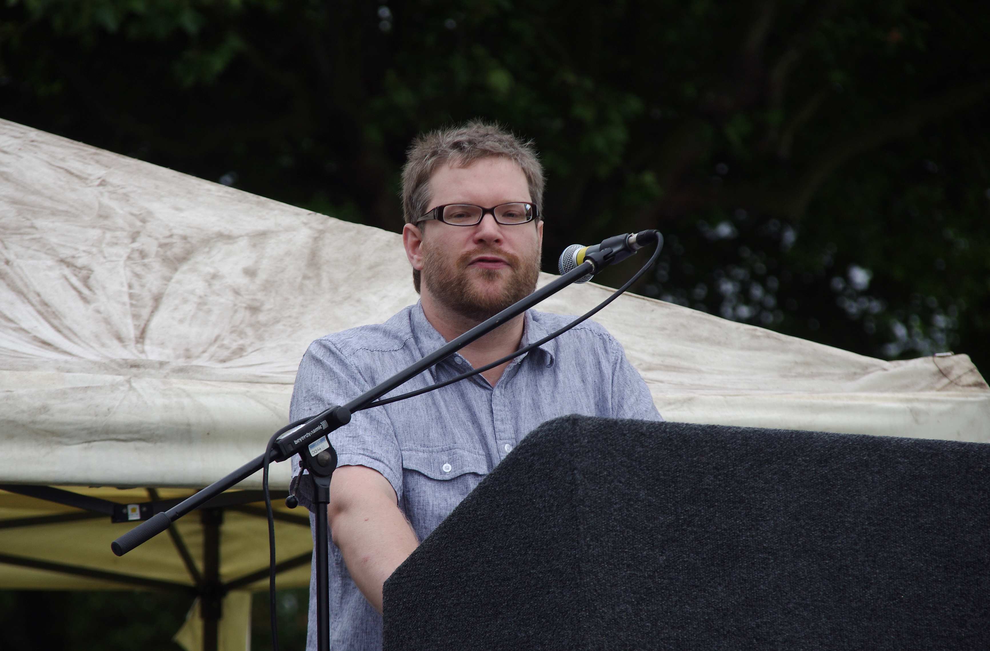 Nottingham Liberal Democrat councillor Alex Foster speaks at Nottingham Pride 2010.